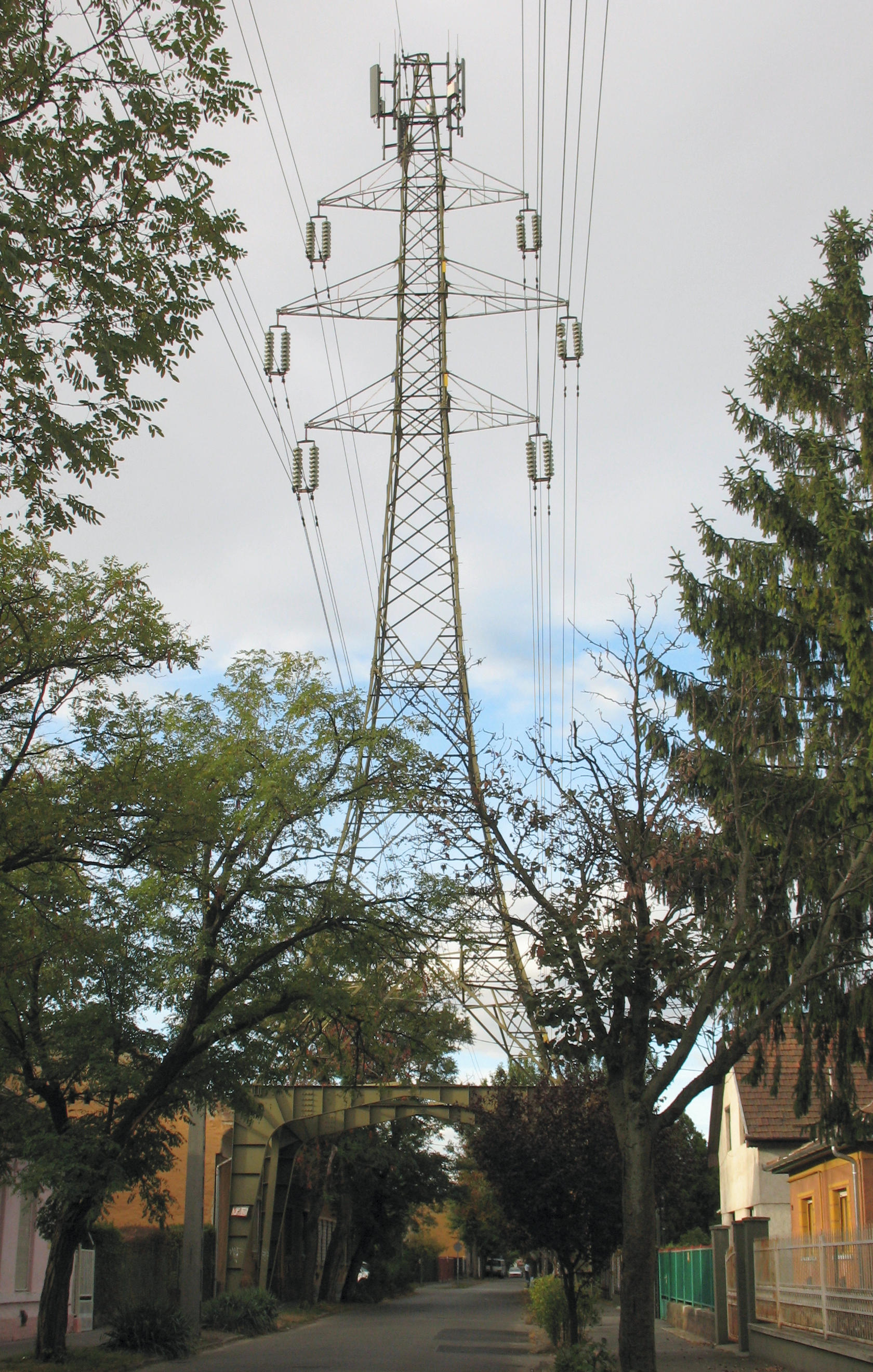 Overhead power line pylon on Tinódi utca near Kiss Erno utca in Budapest, District XVIII, Hungary